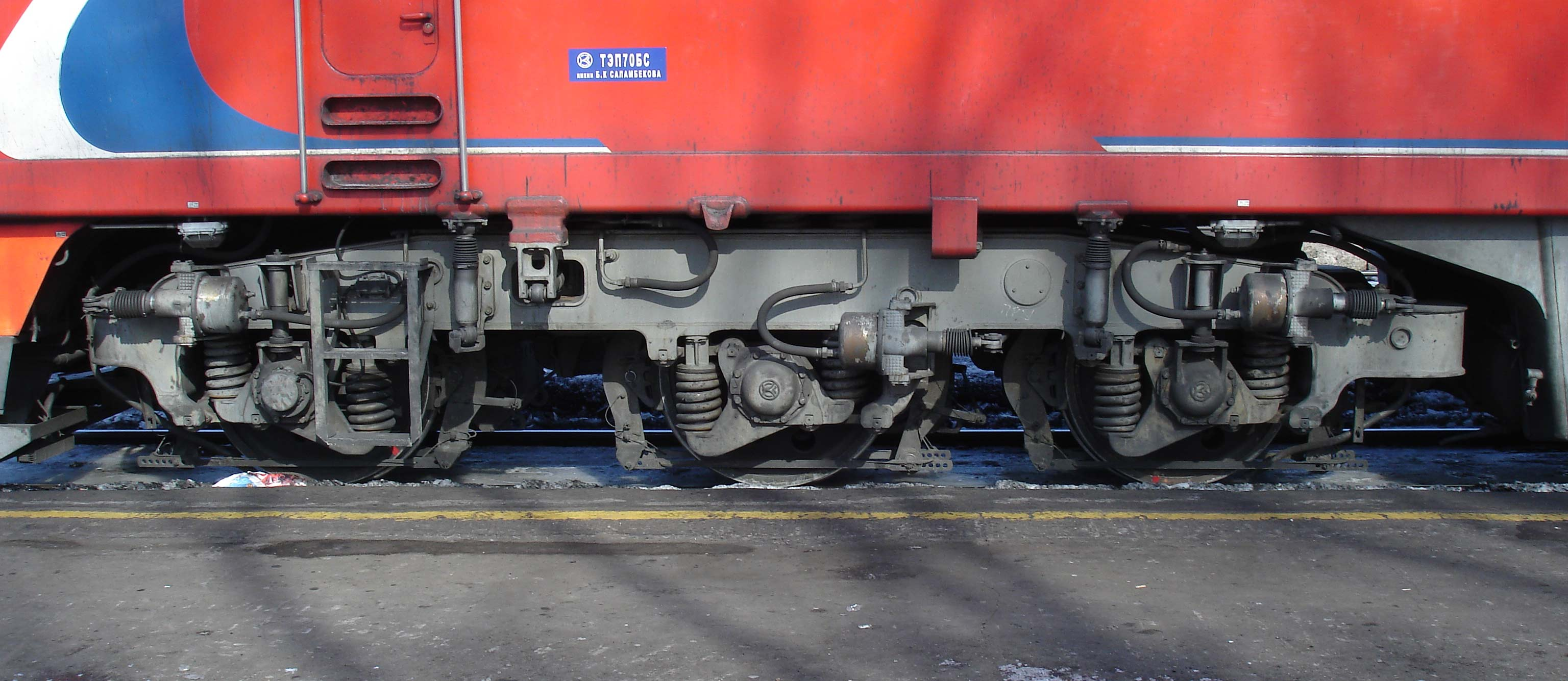 Russian TEP70BS locomotive bogie